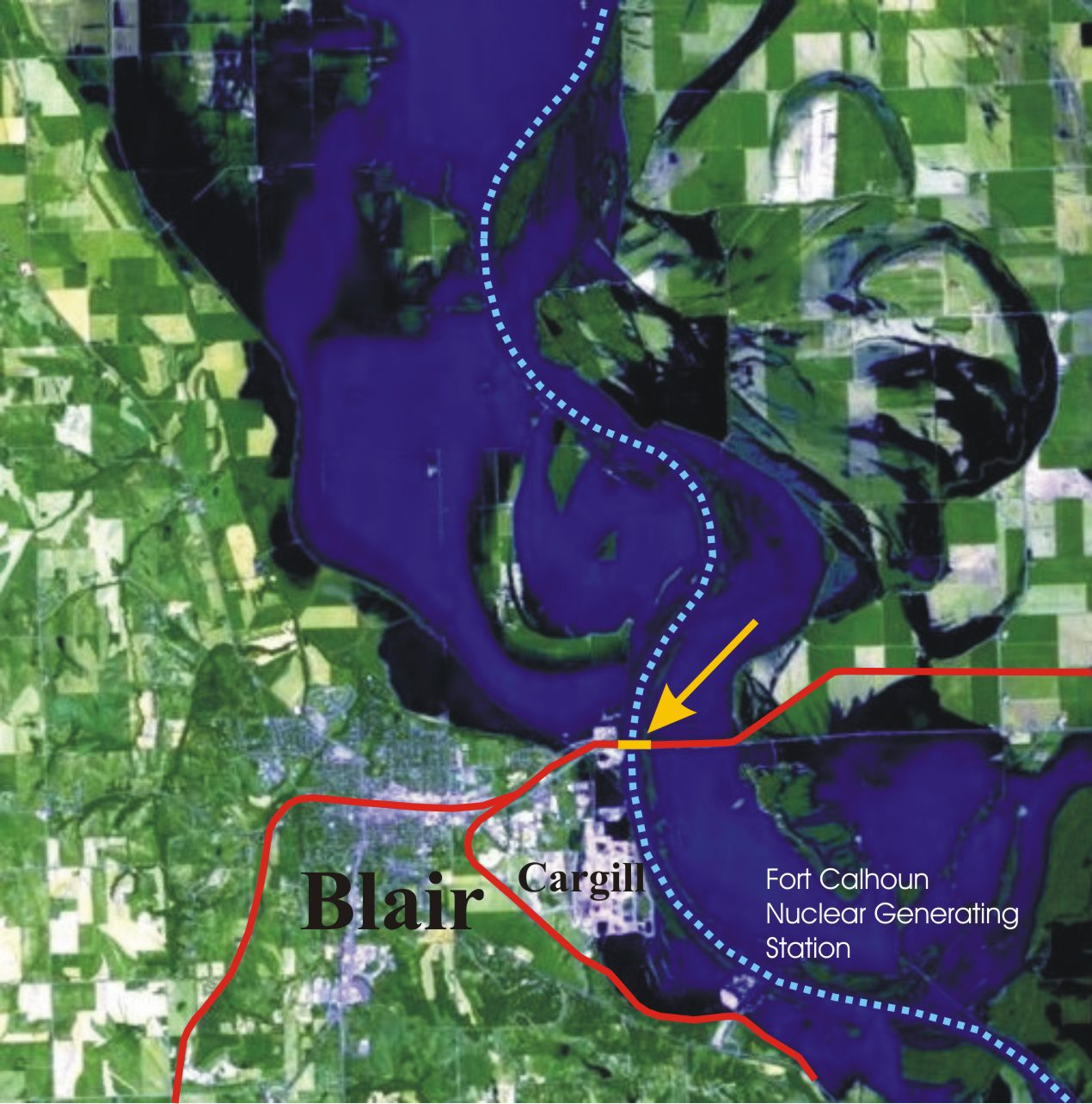 Part of Landsat 5 photo of 2011-06-30 flood from Blair Nebaska through Omaha to Plattsmouth Nebraska